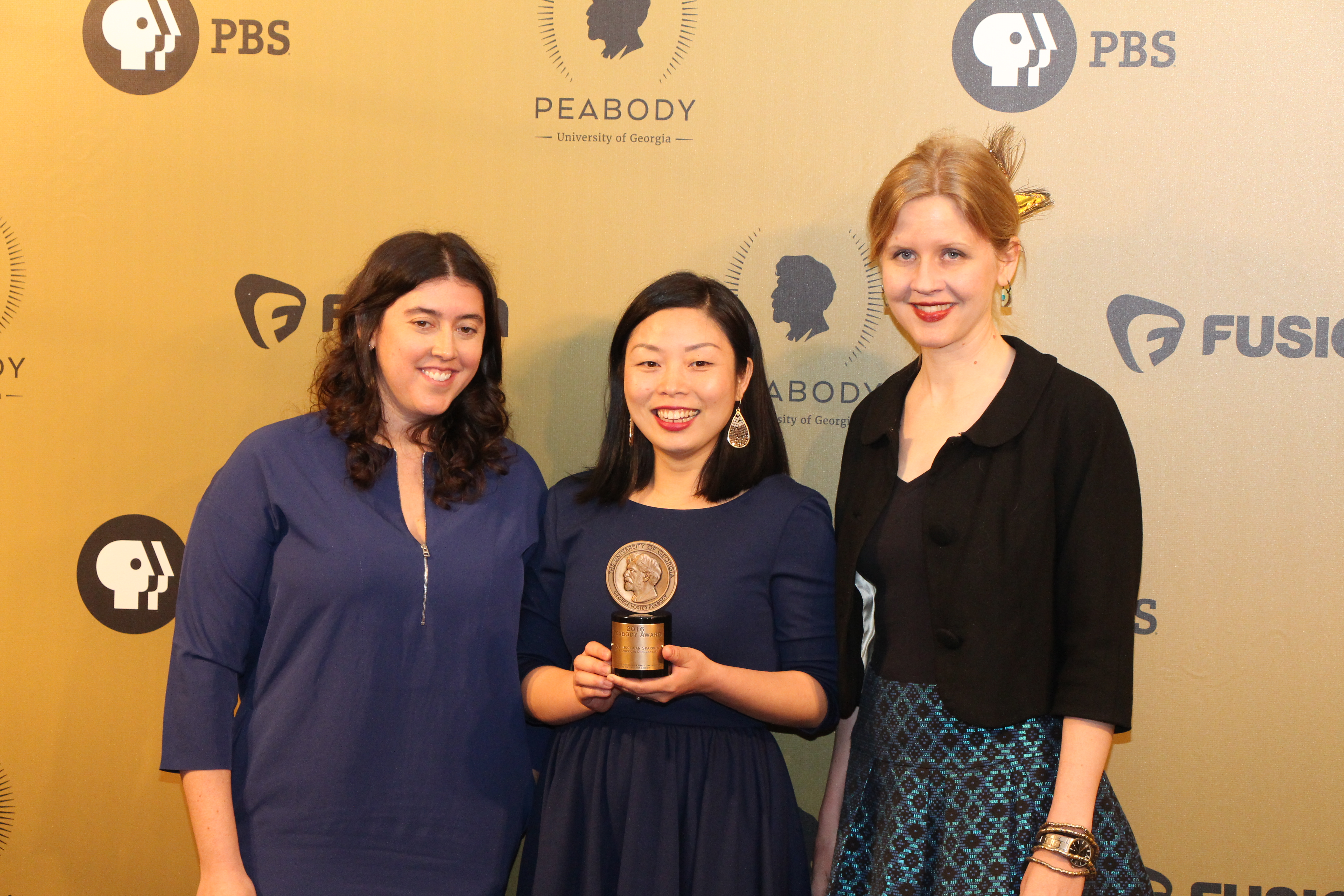 NEW YORK, NY - MAY 20: Alison Klayman, Nanfu Wang, and Justine Nagan from Hooligan Sparrow pose with an award during The 76th Annual Peabody Awards Ceremony at Cipriani, Wall Street on May 20, 2017 in New York City.